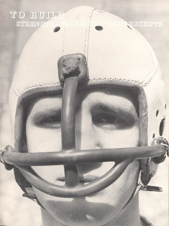 Photograph of Nebraska Cornhusker quarterback John Howell with facemask